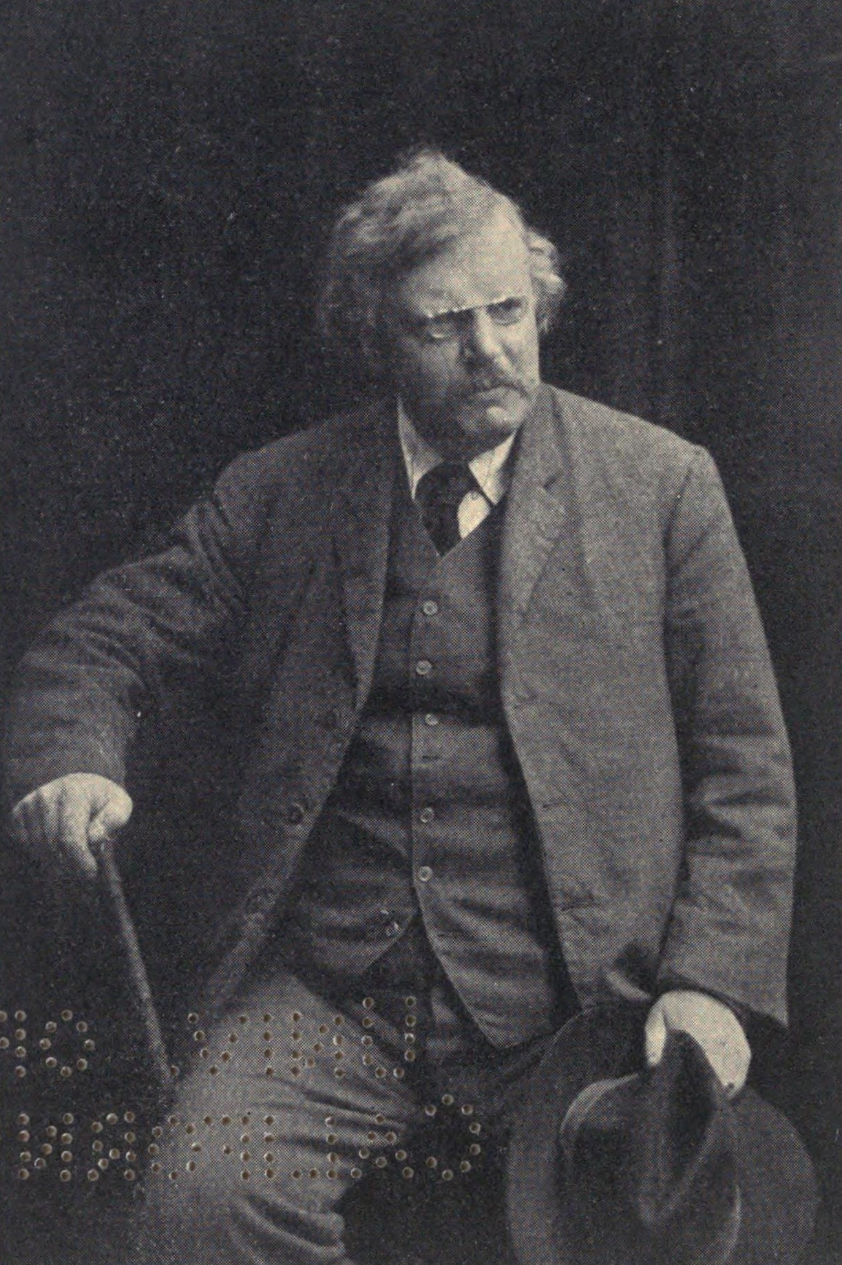 Photo of Gilbert Keith Chesterton